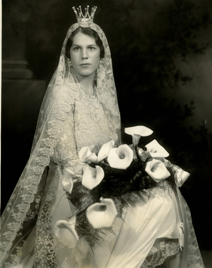 Estelle Manville, wedding photo of 1928. She wears a Swedish bridal crown in platinum and rock crystal and Queen Sophia's bridal veil in openwork lace. The veil was hold by a coronet in silver and crystals, which was specially made by the Swedish court jeweler